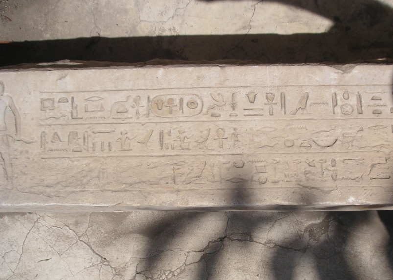 Lintel inscribed with a dedication in the name of Pharaoh Seankhibra Amenemhat VI (13th Egyptian dynasty), in Heliopolis, or Pharaoh Seankhibtawy Seankhibra.